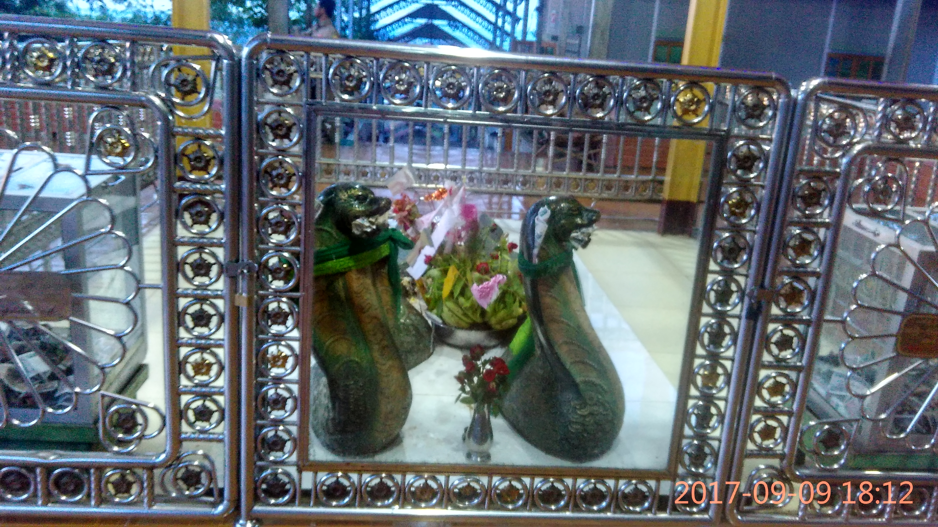 Two snakes at Mandalay Hill မြန်မာဘာသာ: မန္တလေးမြိုရှိ မြွေကြီးနှစ်ကောင်ရုပ်တု။